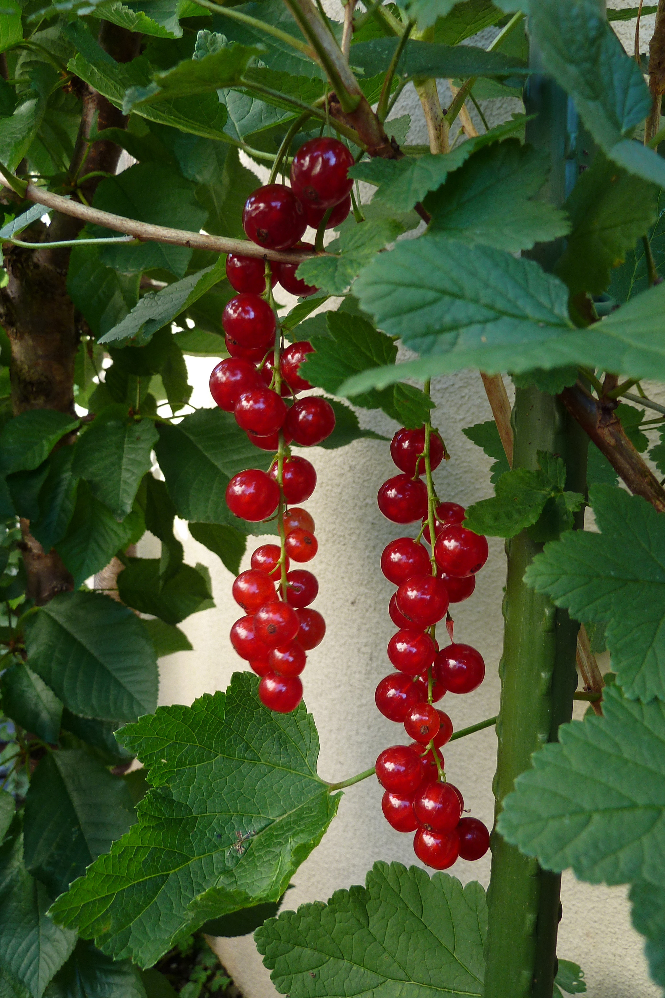 Berries of Redcurrant